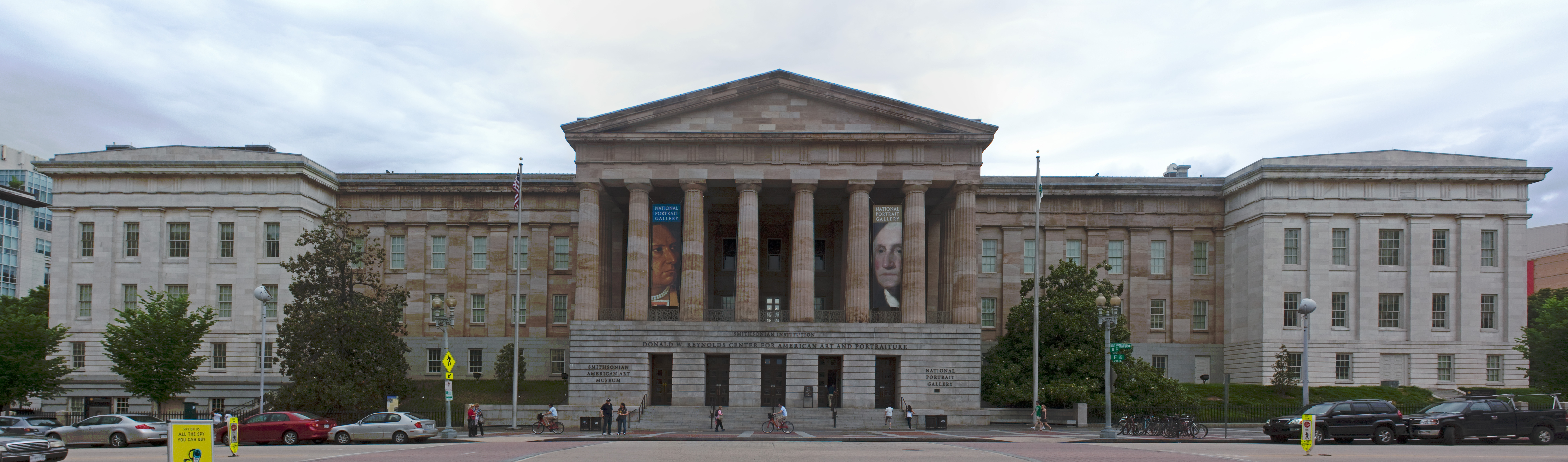 The Old Patent Office Building, home of the National Portrait Gallery and Smithsonian American Art Museum on F Street NW in Washington, D.C. This image was created with Hugin.